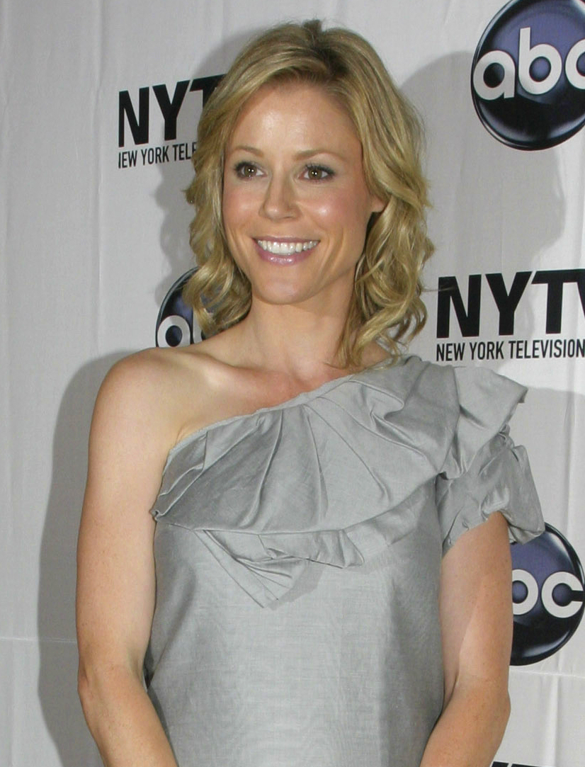 Julie Bowen at the New York Television Festival 2009.